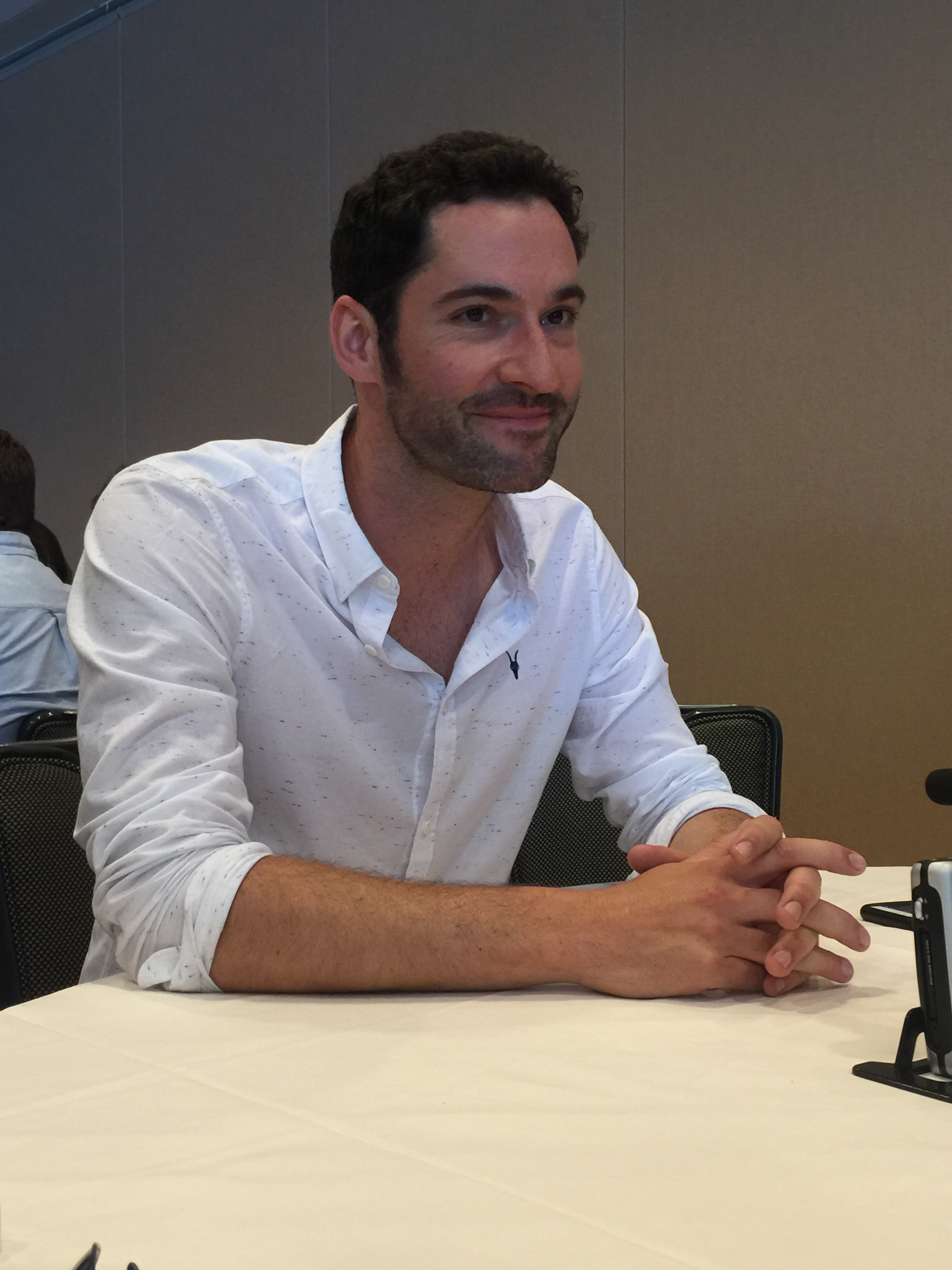 Tom Ellis at San Diego Comic Con 2015